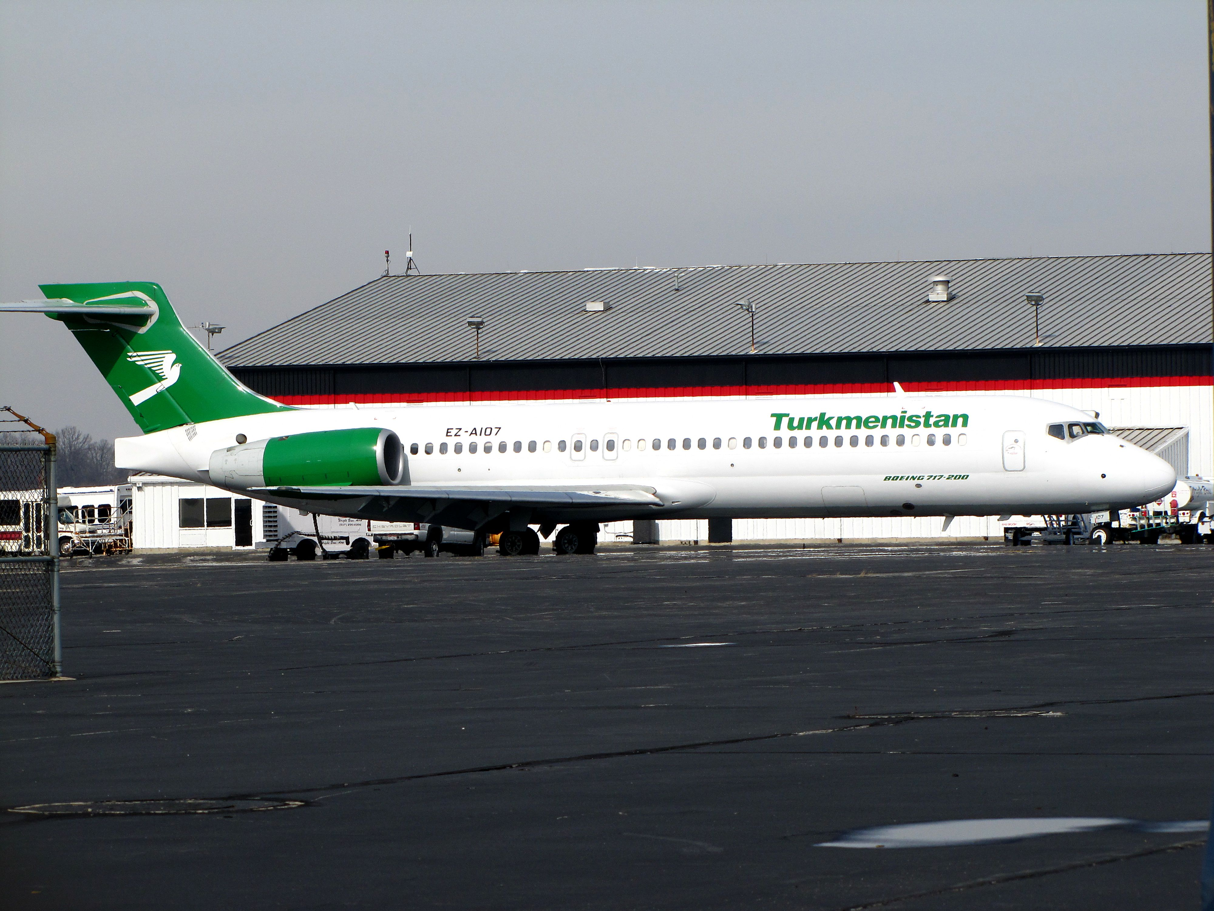 Turkmenistan Airlines Boeing 717-200 James M. Cox Dayton International Airport